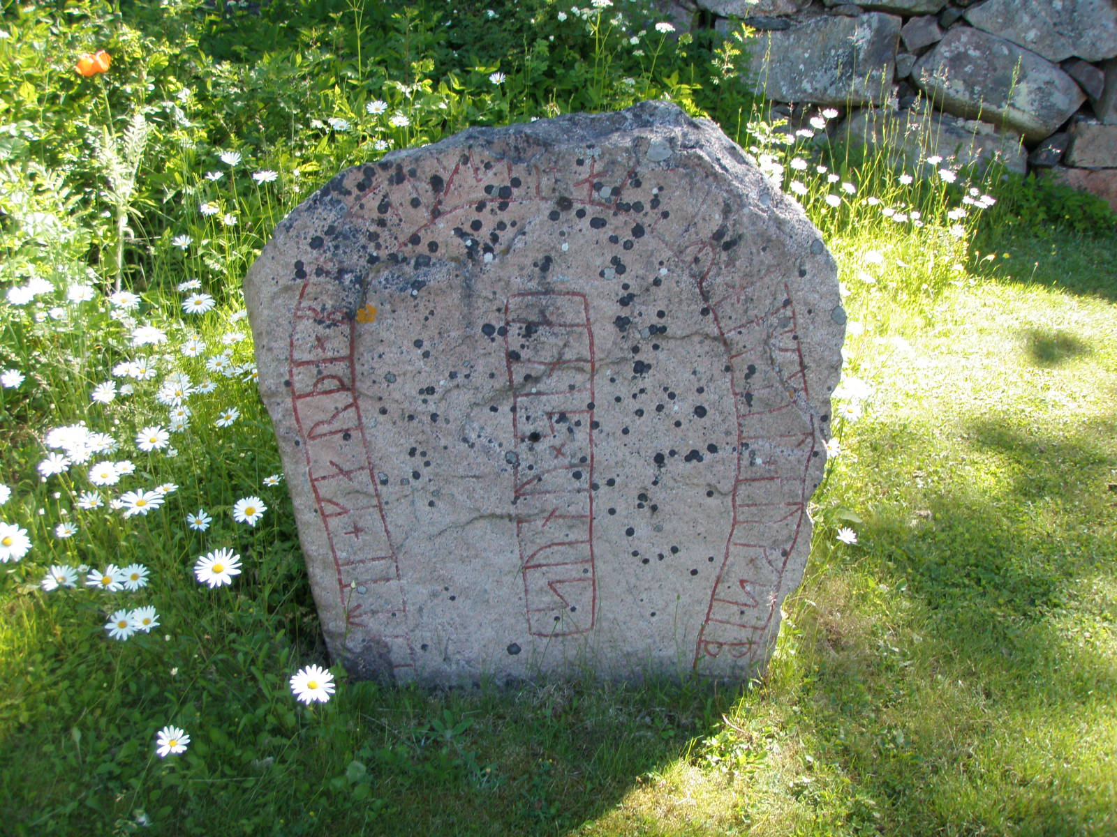 Runestone Ög 157